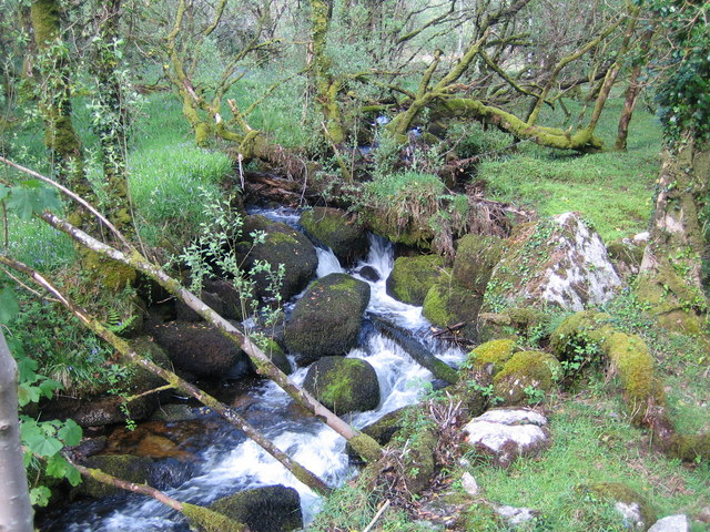 Dartmoor: Walla Brook Walla Brook is a tributary of the East Dart River, and is seen here looking upstream near Babeny.